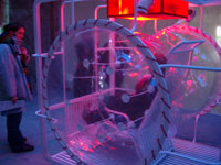 Exposition view